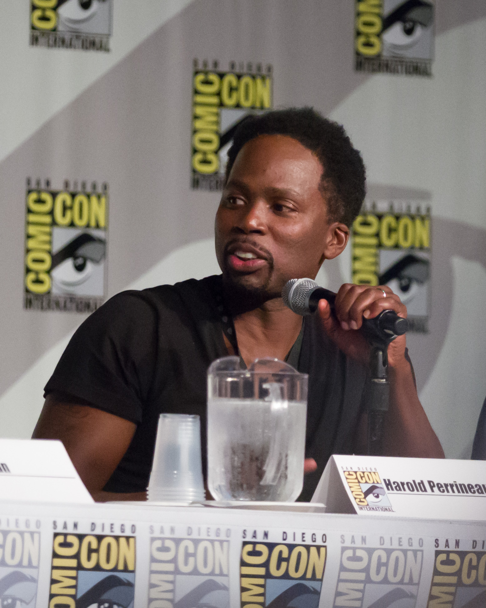 Harold Perrineau at the 2014 Comic Con presentation for the TV show Constantine.